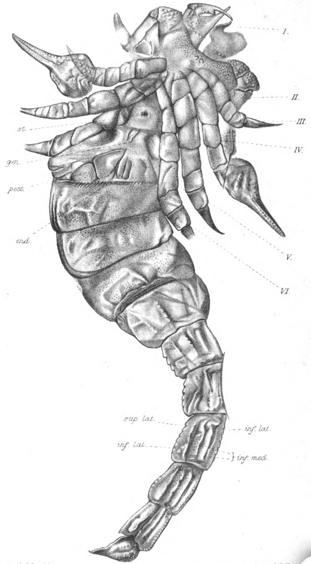 The Scottish Silurian Scorpion. The Quarterly Journal of Microscopical Science. N. S. 1901. Vol. 44. pl. 19